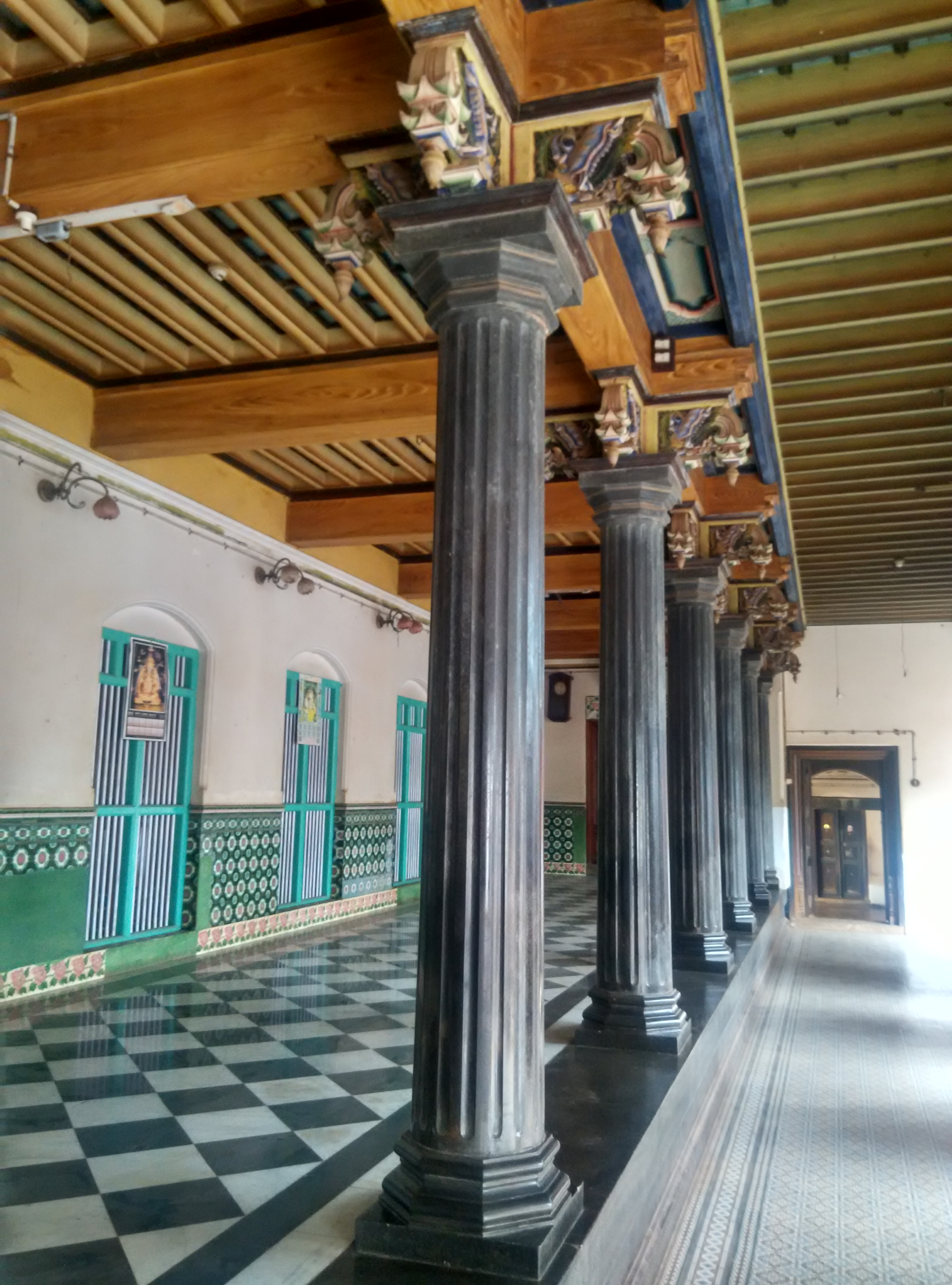 Pillars of Chettinad